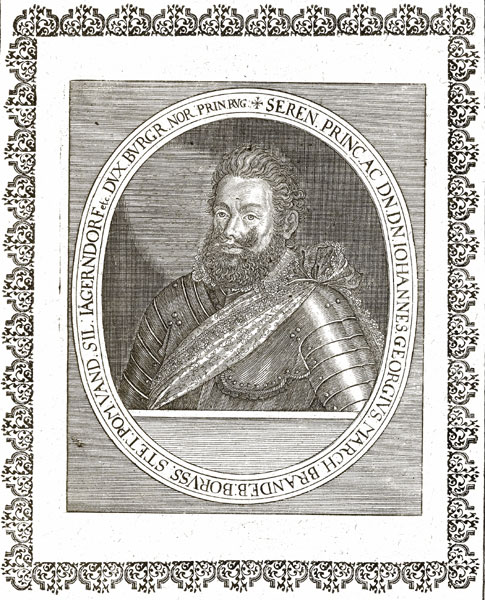 Johann Georg of Jägendorf